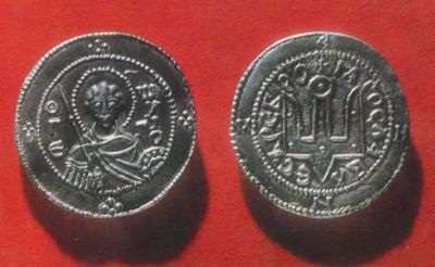 Сребреник